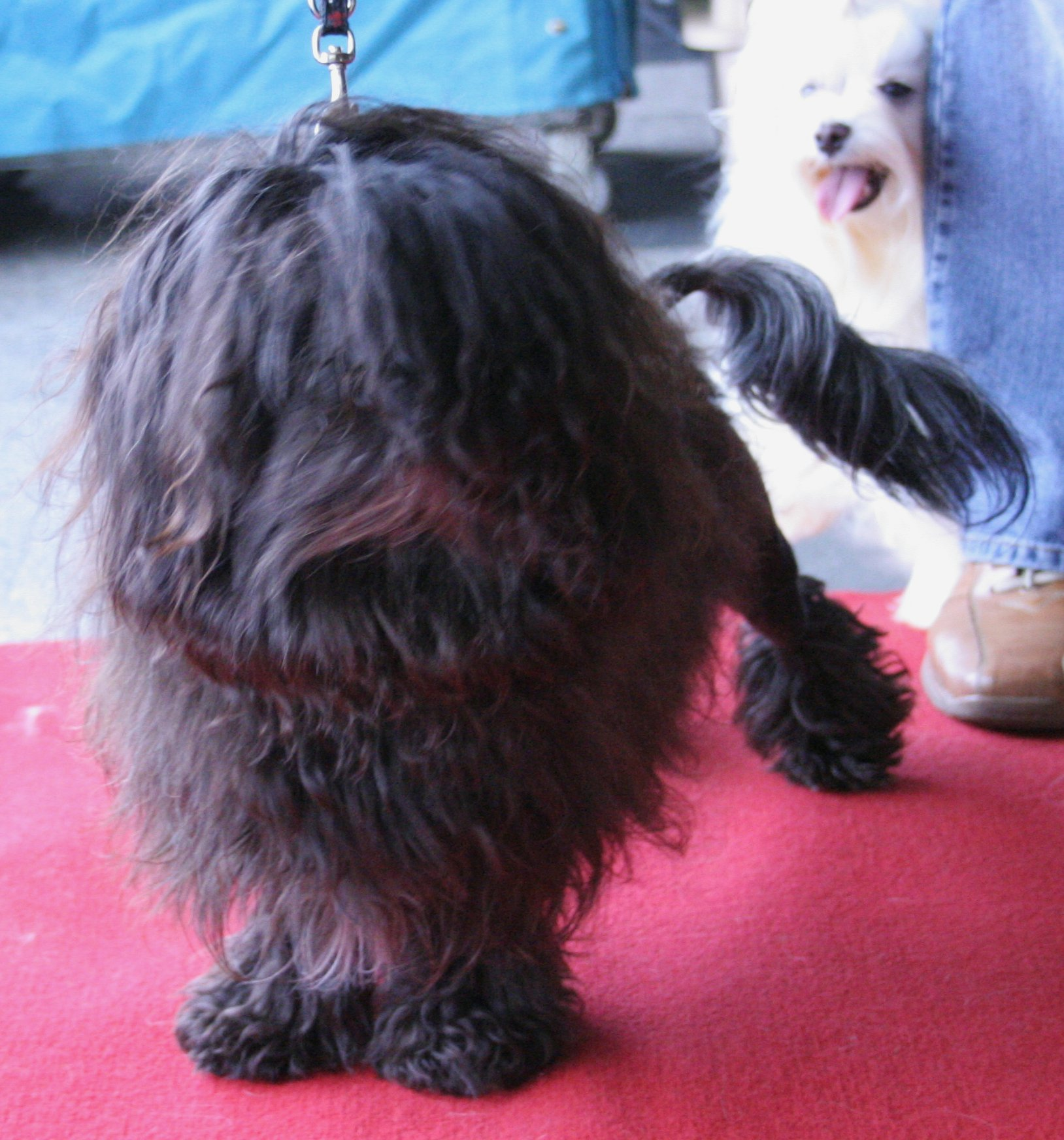 Löwchen during dogs show in Katowice